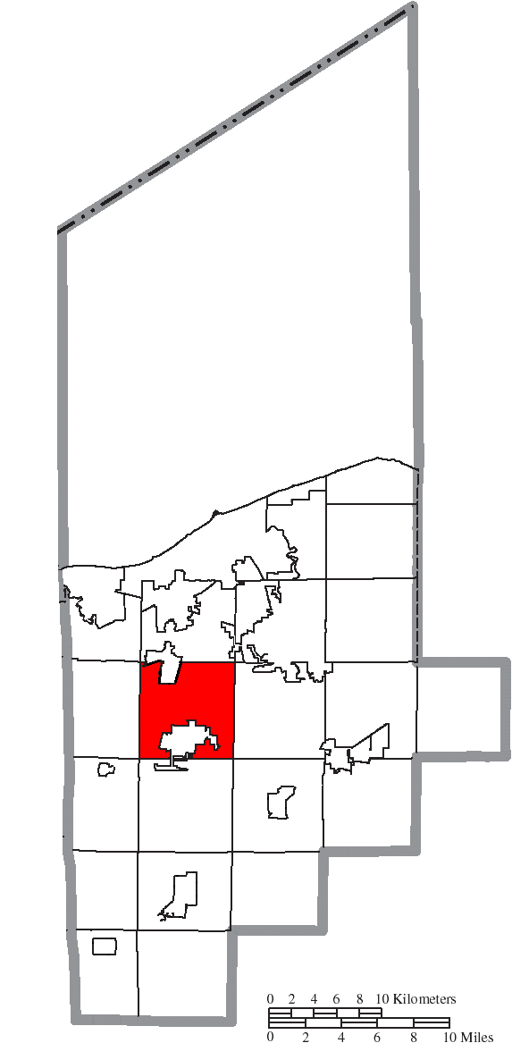 Map of the municipal and township boundaries of Lorain County, Ohio, United States, as of the 2000 census, with the location of New Russia Township highlighted. Township borders are shown only in unincorporated areas in order to differentiate incorporated and unincorporated areas more clearly.